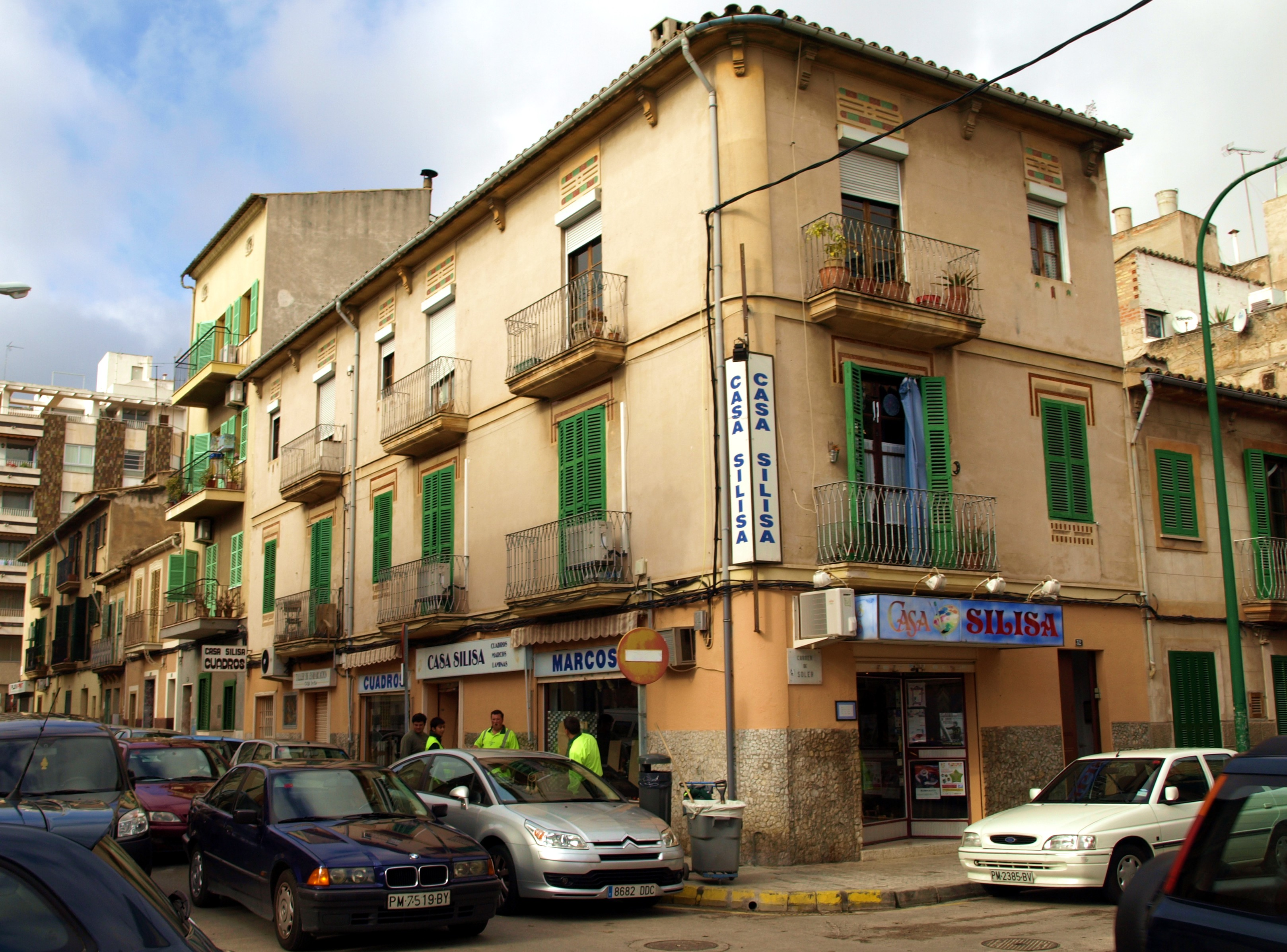 Soler Street at Santa Catalina area Place Lloc/Place: Palma